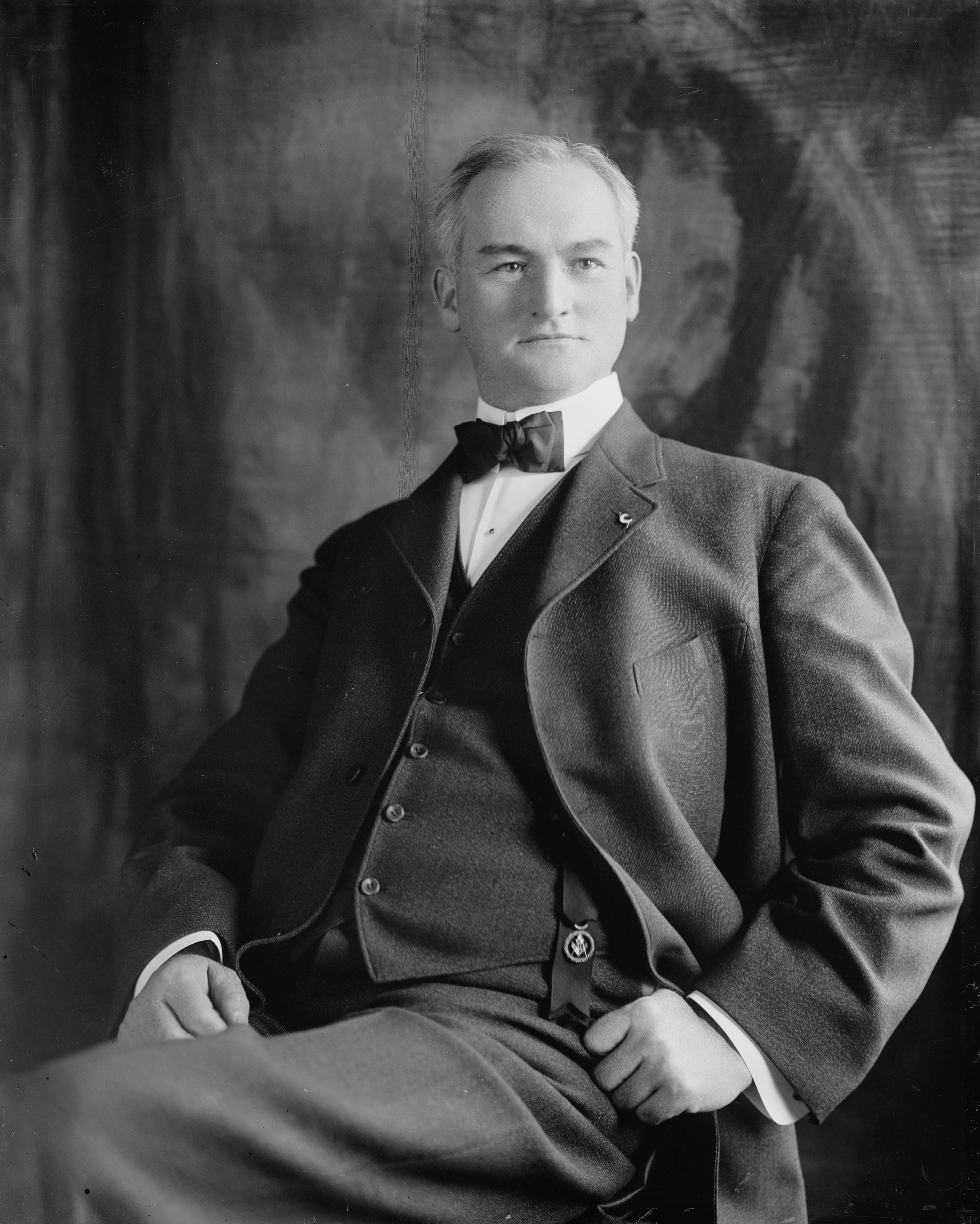 Title: GARY, FRANK B. SENATOR Abstract/medium: 1 negative : glass ; 8 x 10 in. or smaller